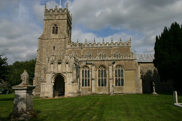 Church of St Ethelbert in Hessett, Suffolk, England. A Grade I listed medieval church.